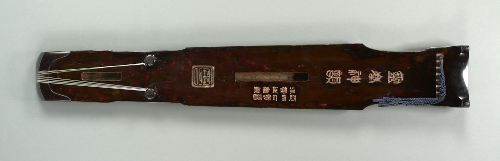 Back of the qin Lingfeng Shenyun (靈峰神韻)